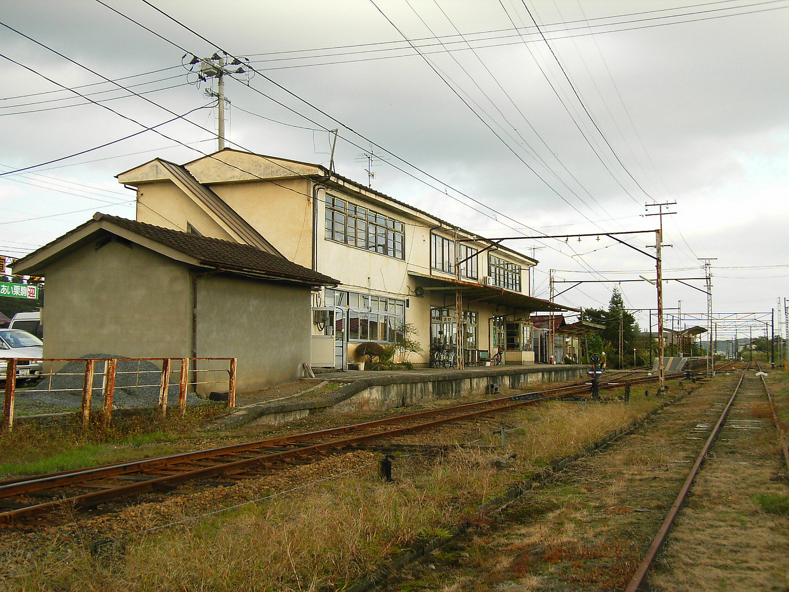 Kurikoma Station of Kurihara Den'en Railway, in Kurihara City, Miyagi Prefecture, Japan. Toward northeast.